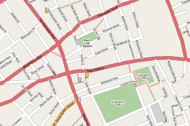 Map of High Holborn